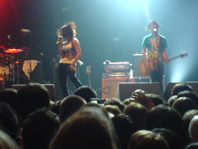 Hey Monday supporting Fall out Boy in March 2009 at Cardiff International Arena, now known as the Motorpoint Arena, Cardiff, Wales